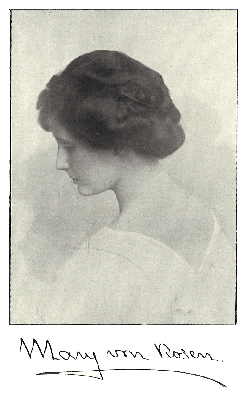 Mary von Rosen (1886-1967), Swedish countess, founder and mother superior of Societas Sanctae Birgittae